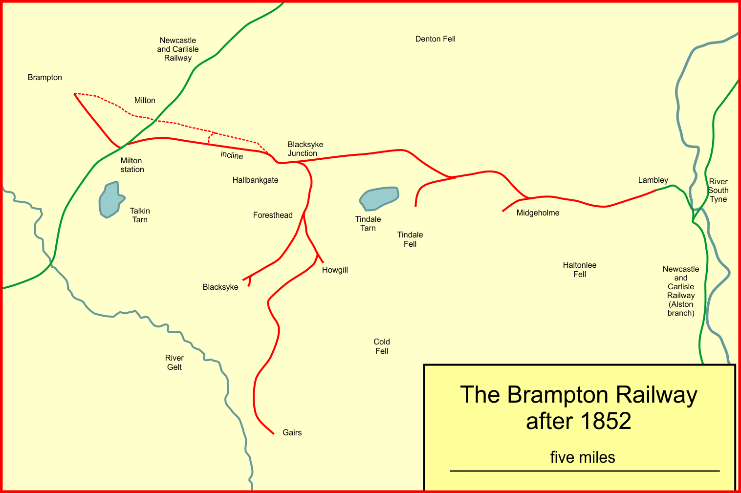 System map of the Brampton Railway, Northern England, after 1852